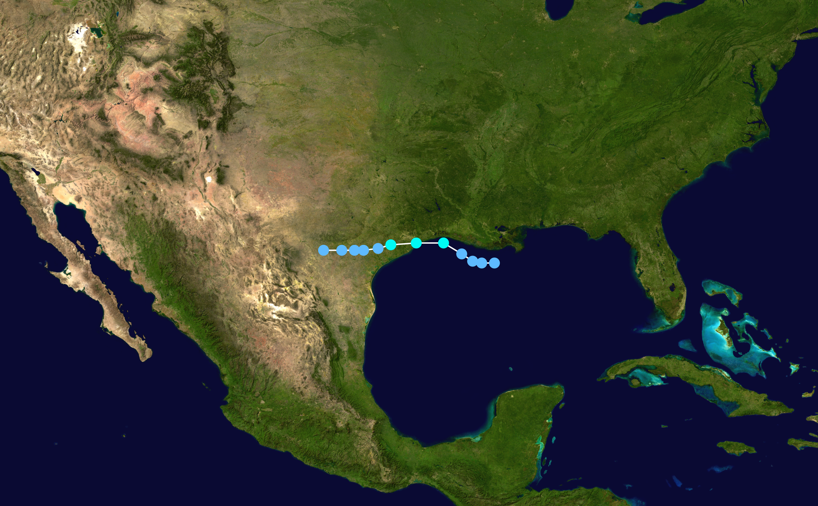 Tropical Storm Danielle (1980) track. Uses the color scheme from the Saffir-Simpson Hurricane Scale.